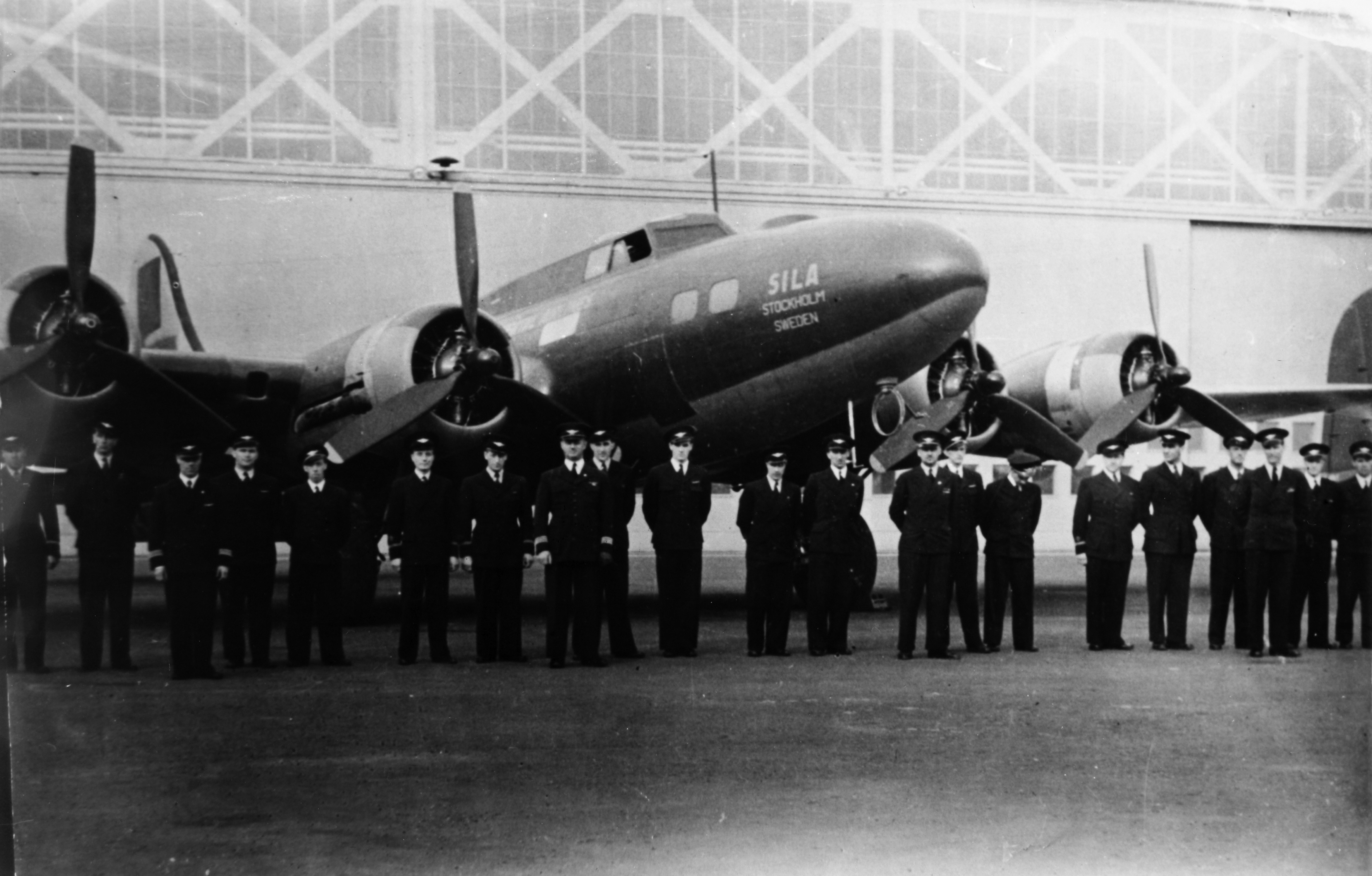 SAS Boeing B-17, Flying Fortress, Sally B, SILA 1946